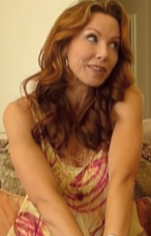 Challen Cates actress in an interview in 2012